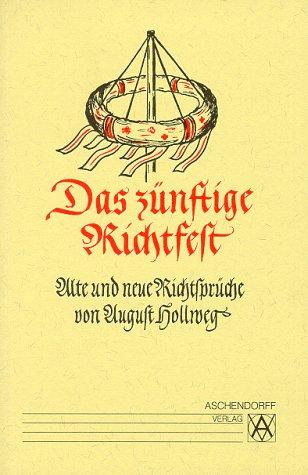 Buchtitel Das zünftige Richtfest von August Hollweg